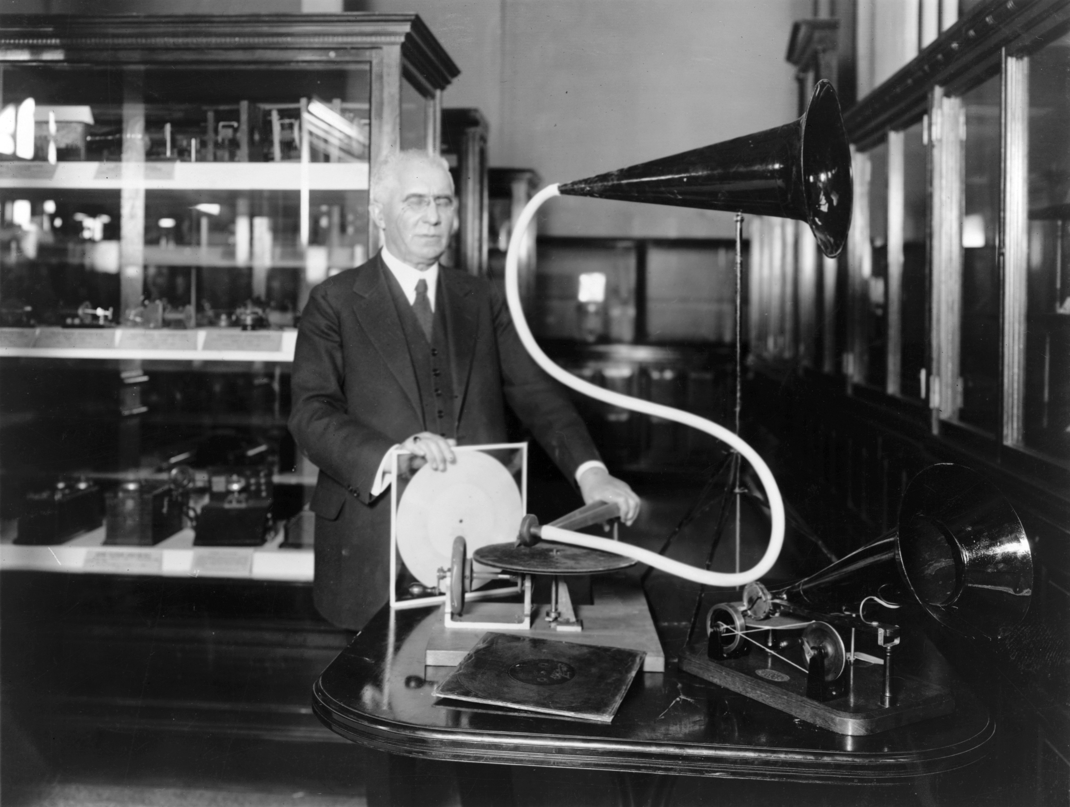 German-American engineer Emile Berliner (1851-1929) with the model of the first phonograph machine which he invented.